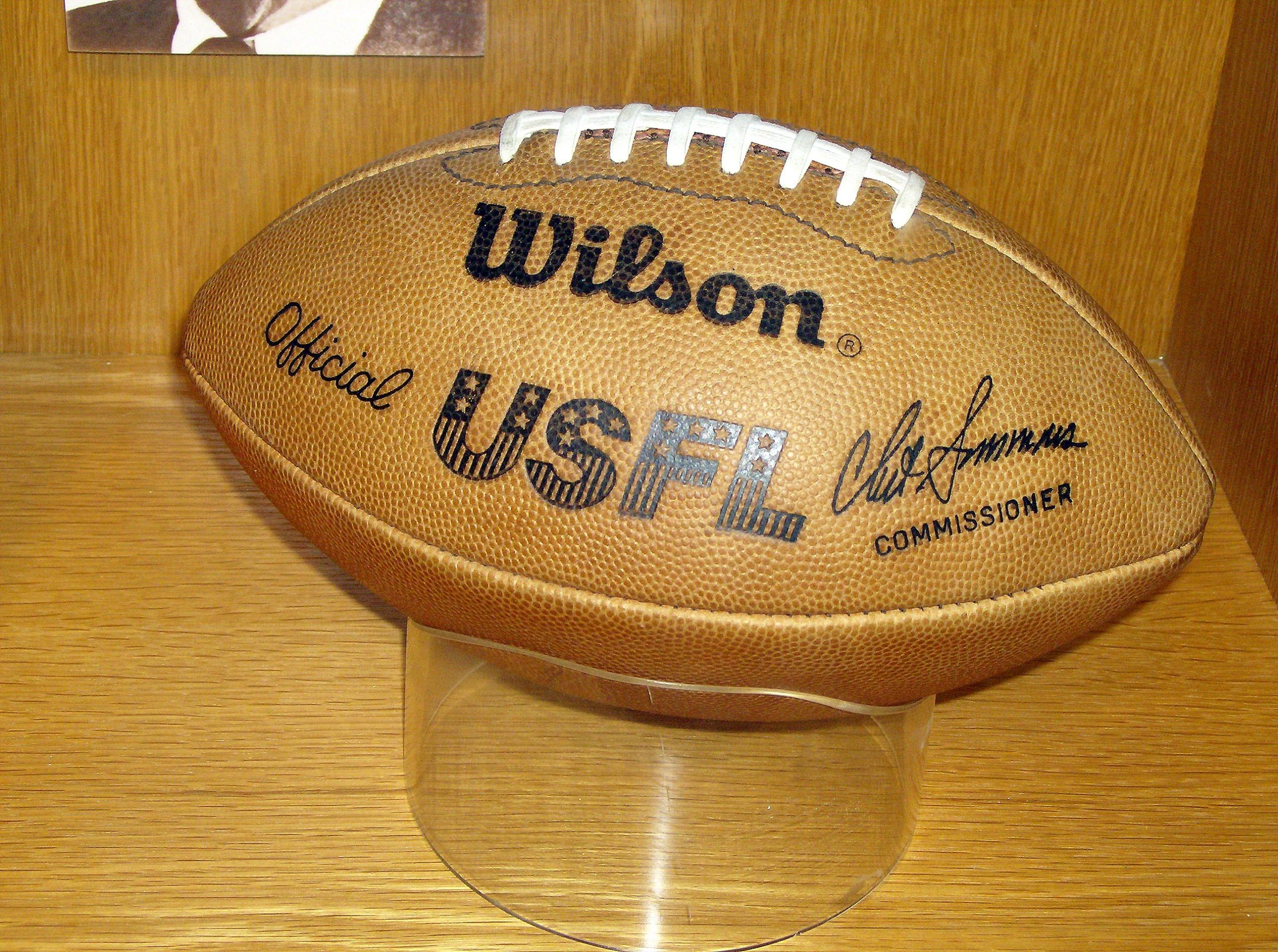 Official game ball of the USFL on display at Pro Football hall of Famne